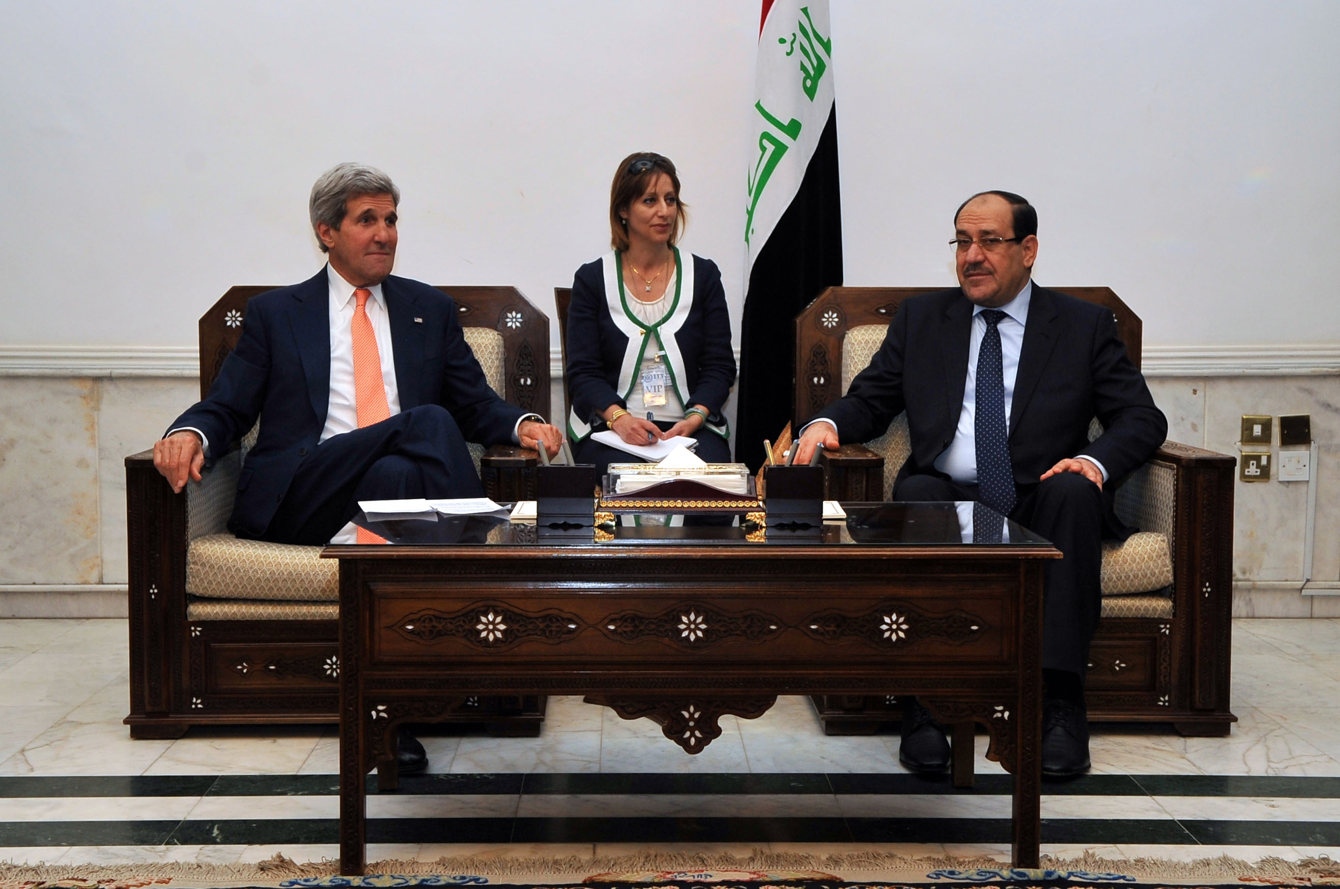 U.S. Secretary of State John Kerry, a State Department translator, and Iraqi Prime Minister Nouri al-Maliki pose for a photograph before beginning a meeting in Baghdad on June 23, 2014. [State Department photo/ Public Domain]